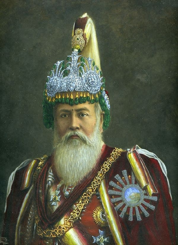 A contemporary portrait of Bhim Shamsher Jang Bahadur Rana (1865-1932), former PM of Nepal and Maharaja of Kaski and Lamjung